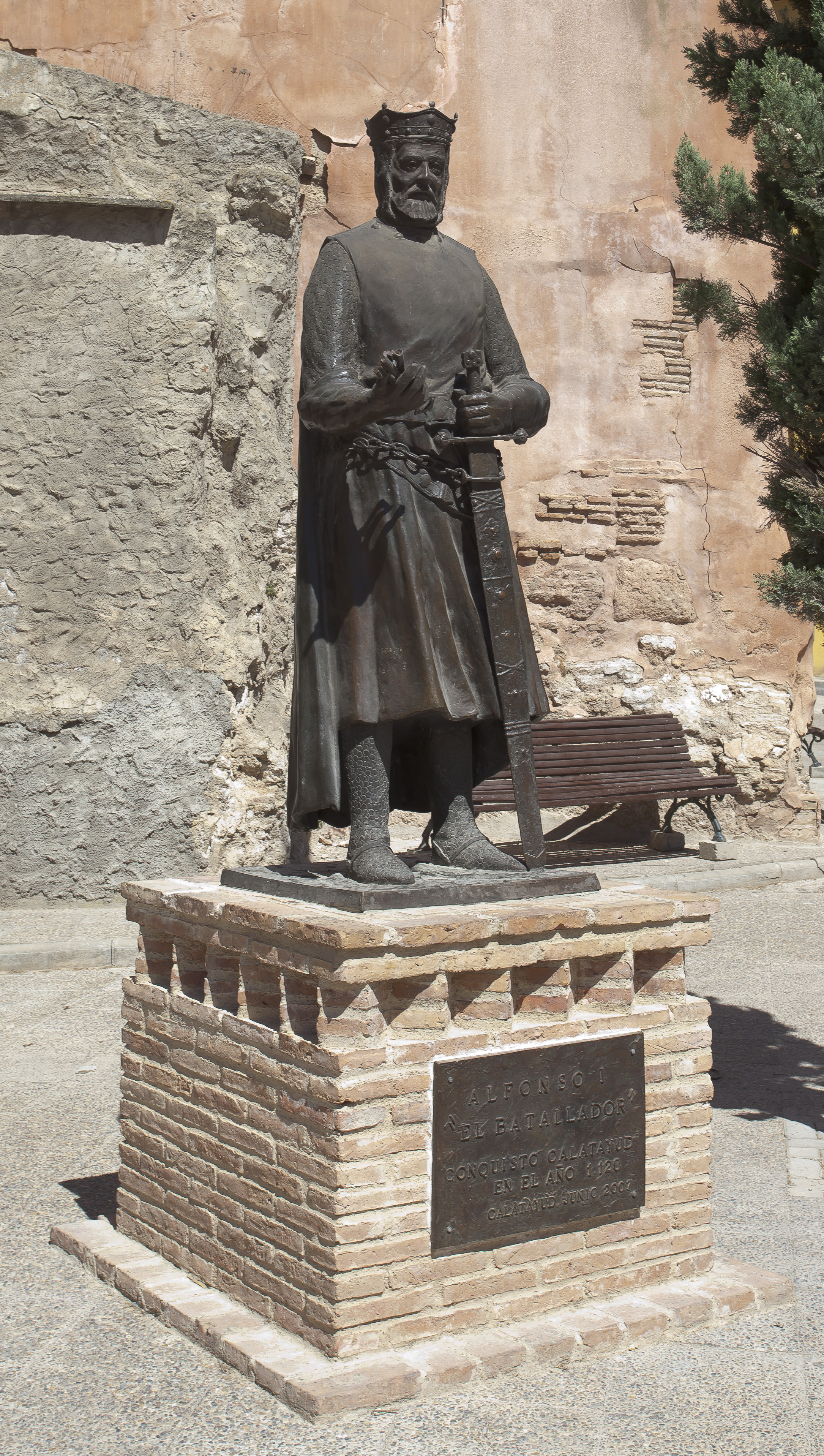 Statue of Alfonso I 'The Battler', Calatayud, Spain